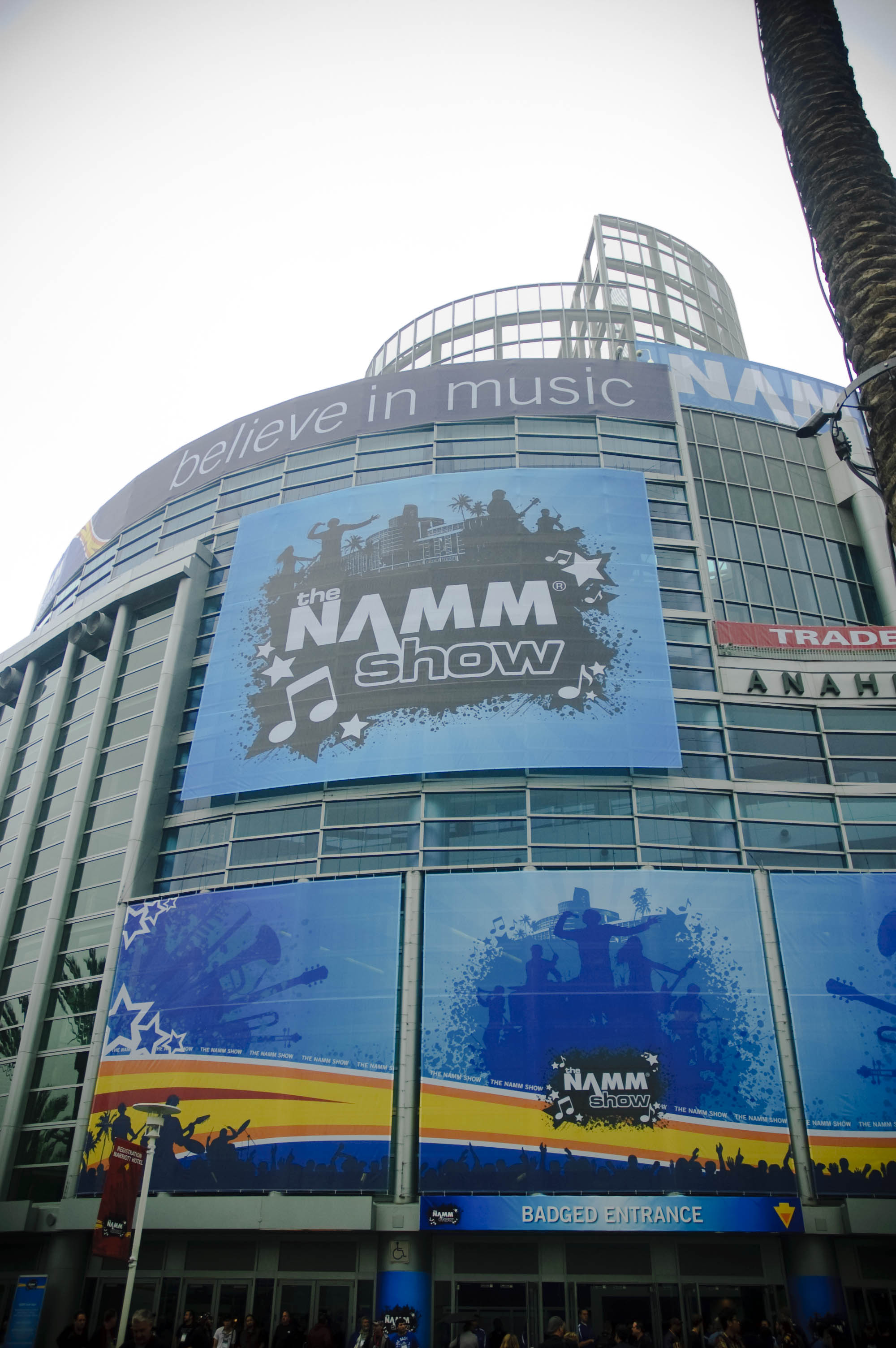 NAMM Show 2013 at Anaheim Convention Center